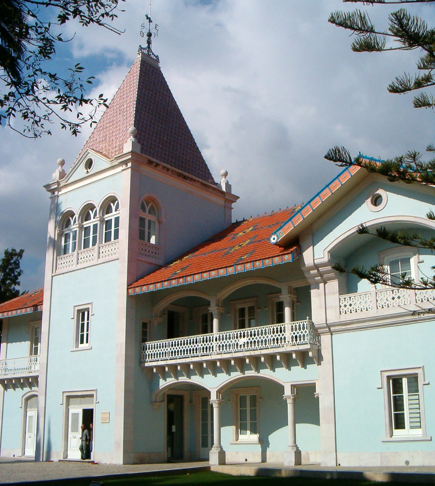 Oeiras, Alges, Palácio dos Anjos